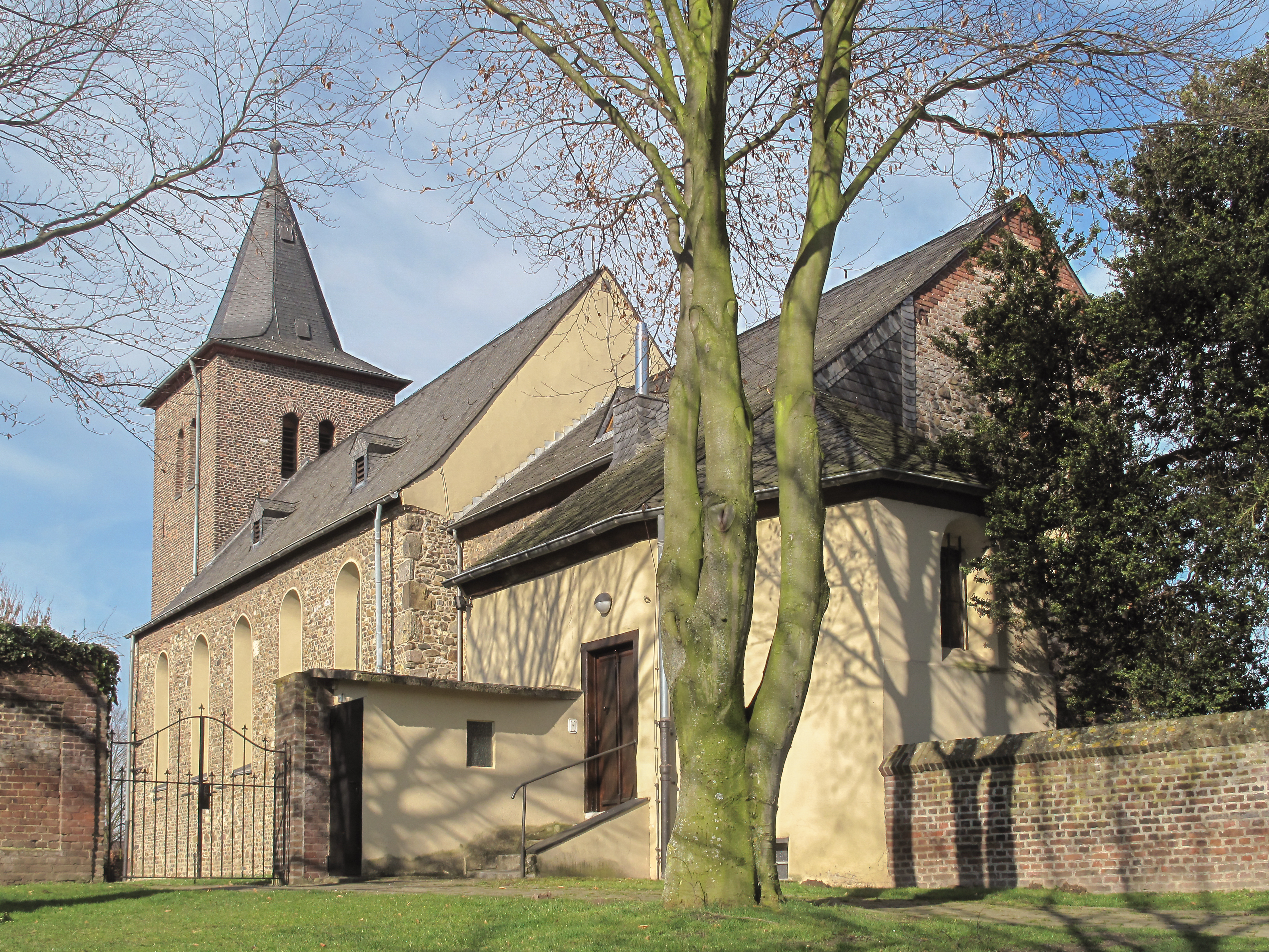 Millen, church